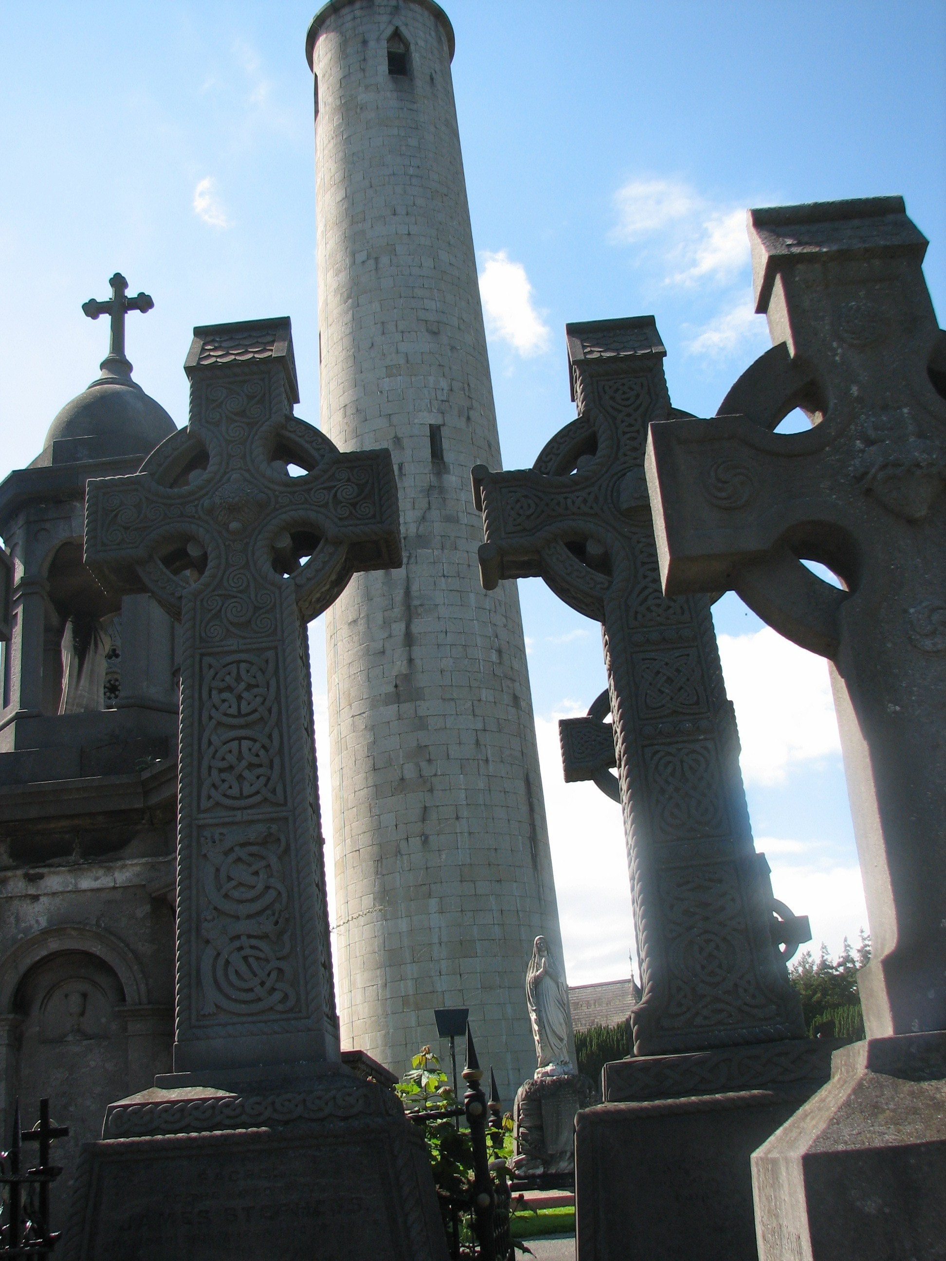 The Picture was taken in Glasnevin Cemetery, Dublin. The Cemetery is currently being renovated.